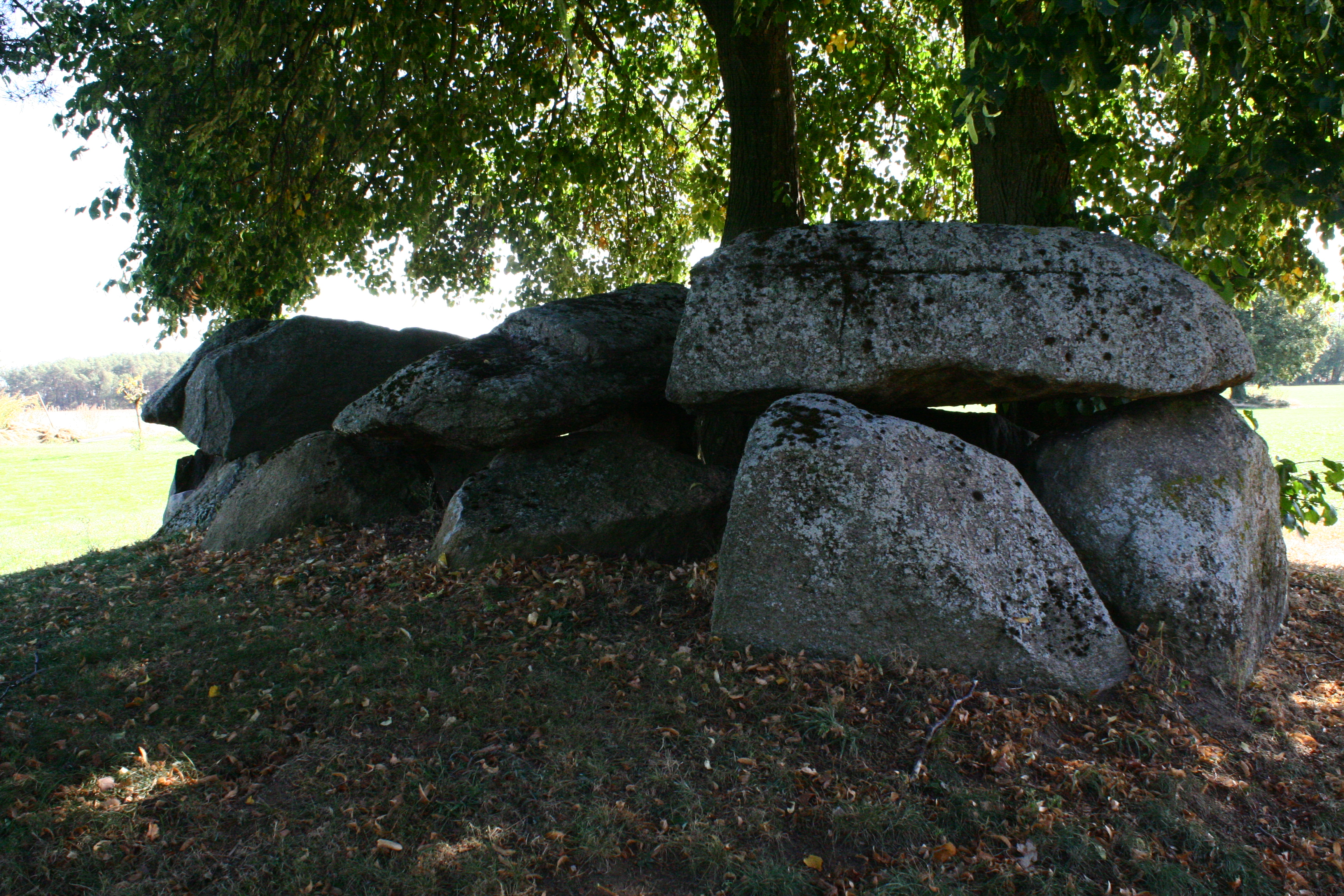 Megalithic tomb Bornsen 2